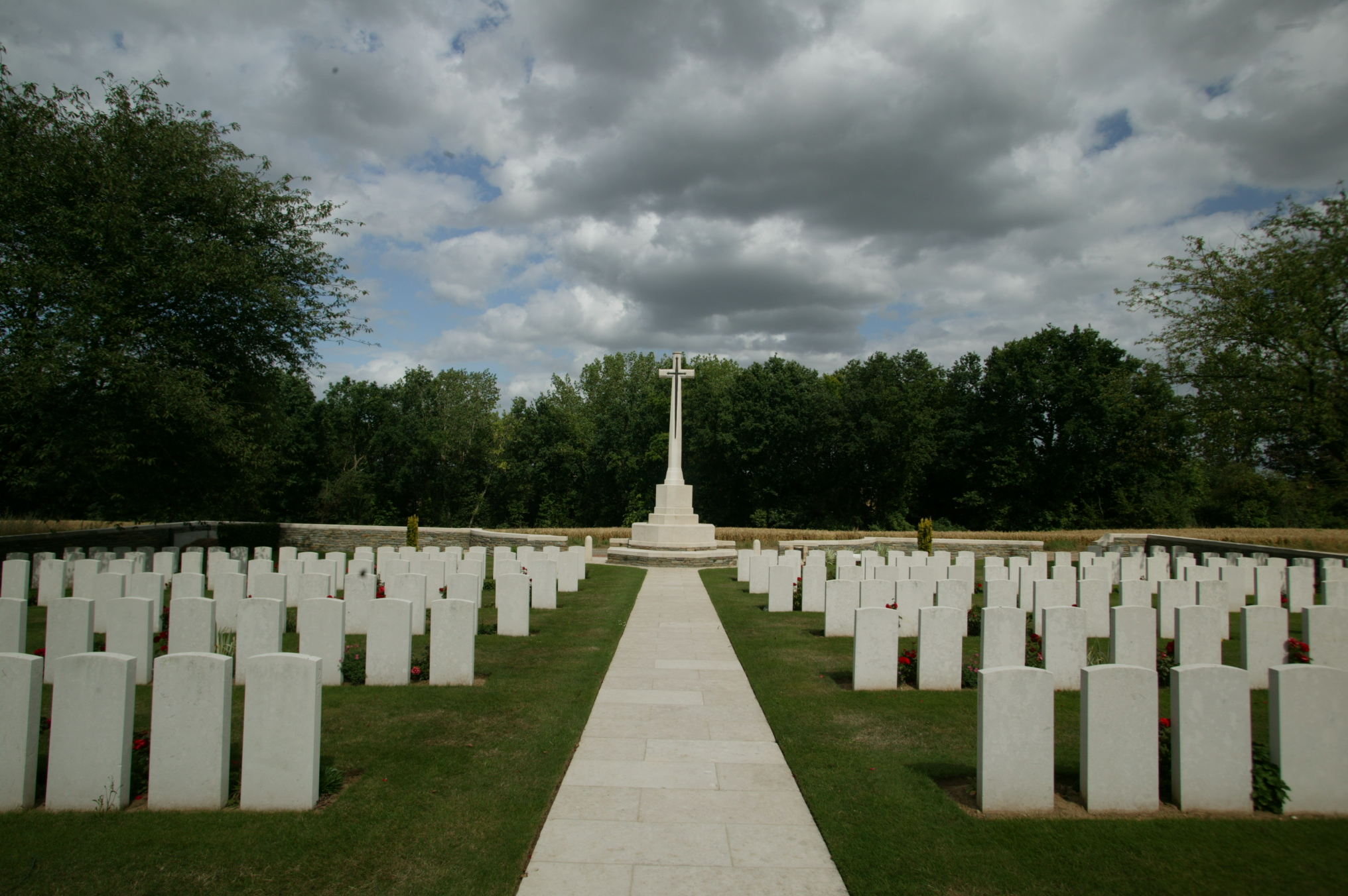 Caix British World War 1 Cemetery